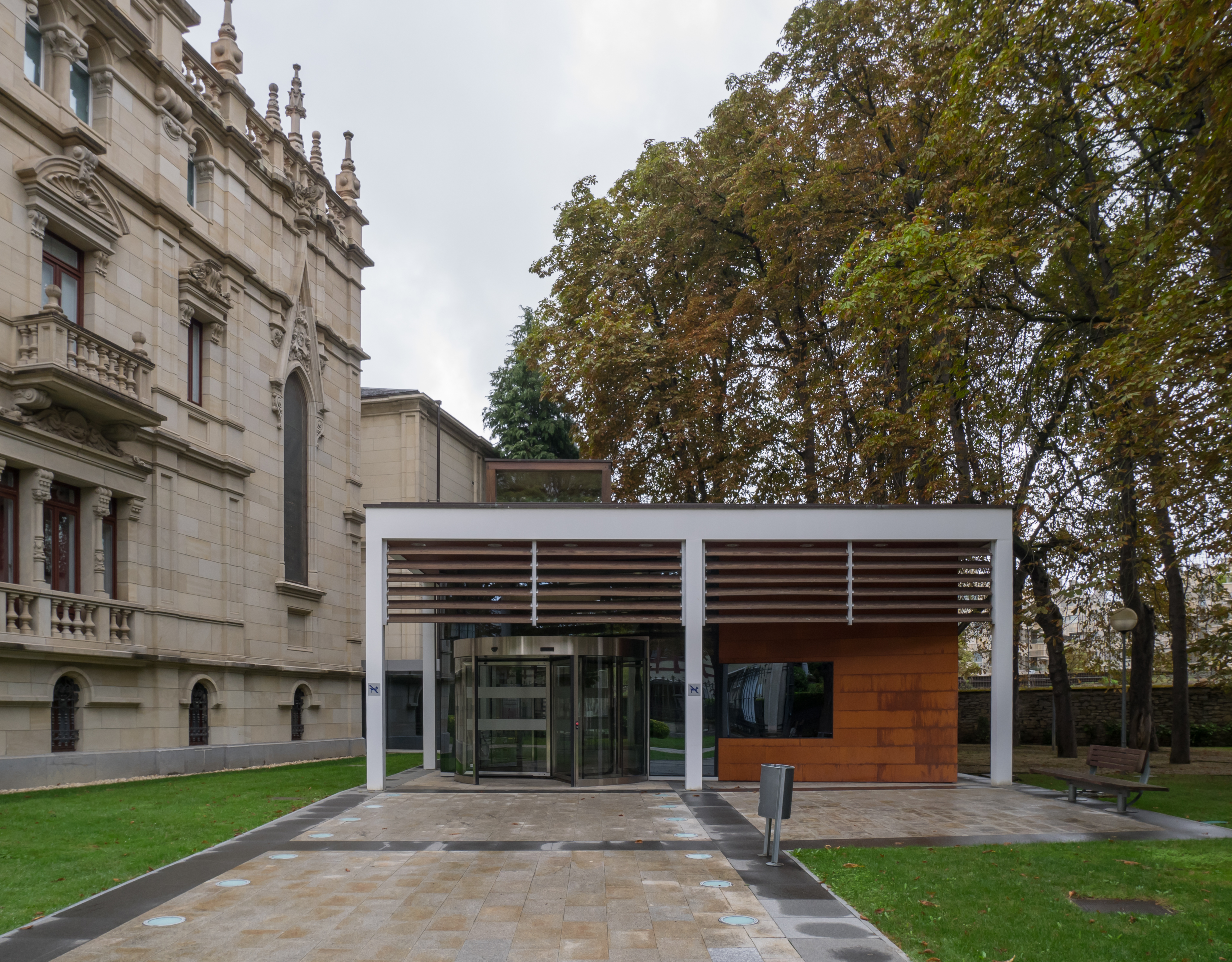 Museum of Art of Álava. Vitoria-Gasteiz, Basque Country, Spain